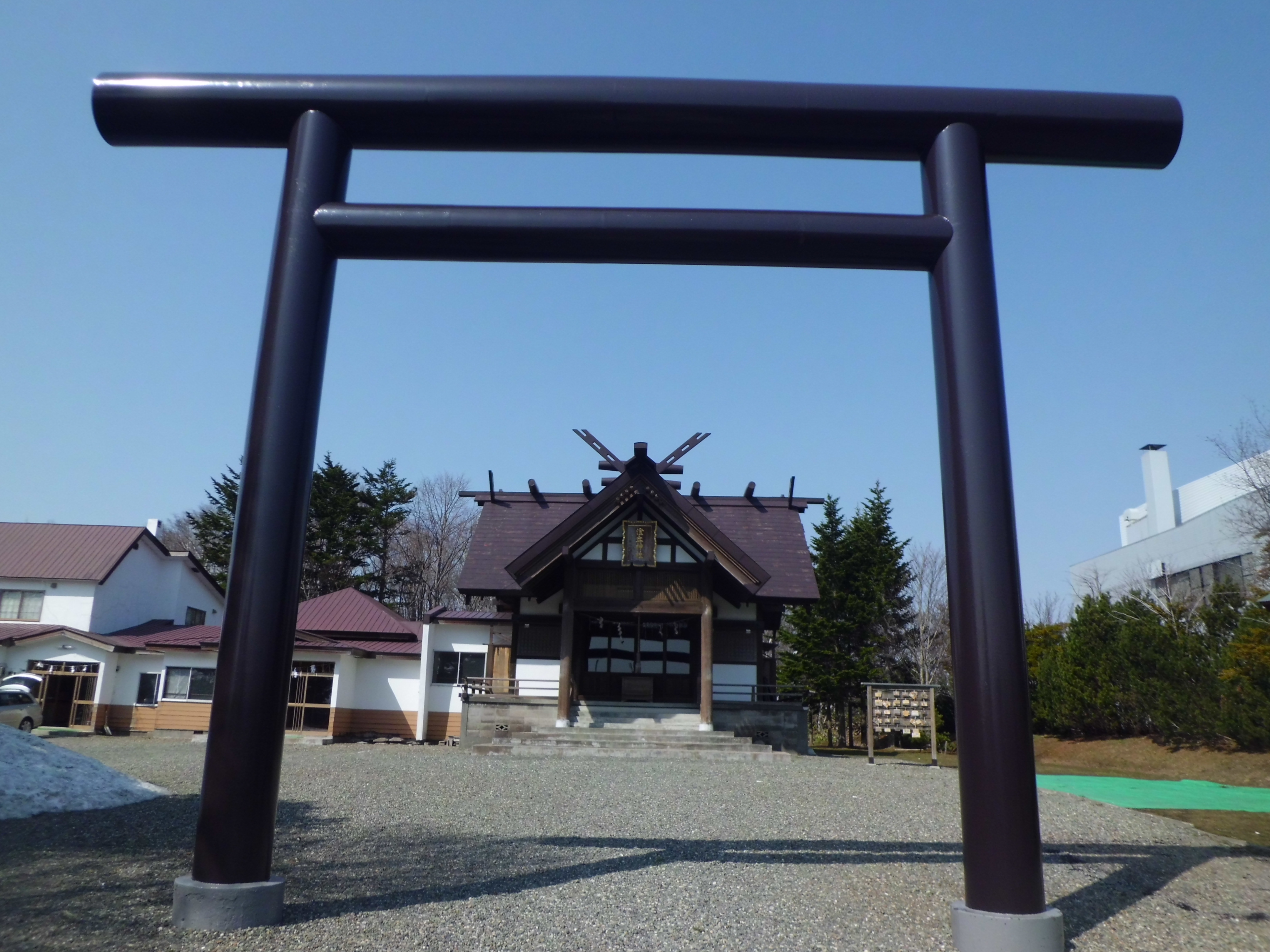 Sumioka Shrine in Atsubetu-ku, Sapporo.